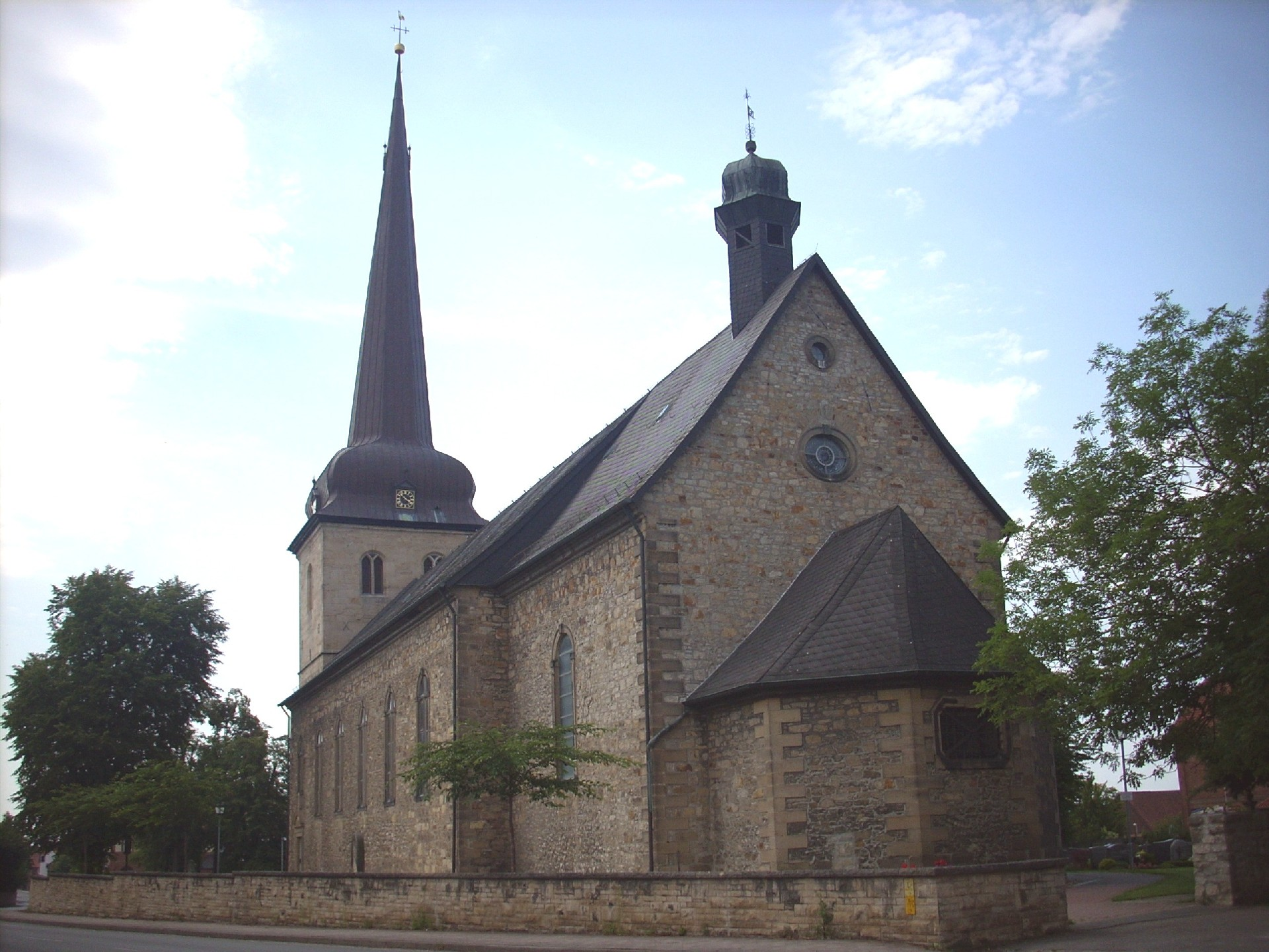 St. Martinus Catholic Church, Borsum